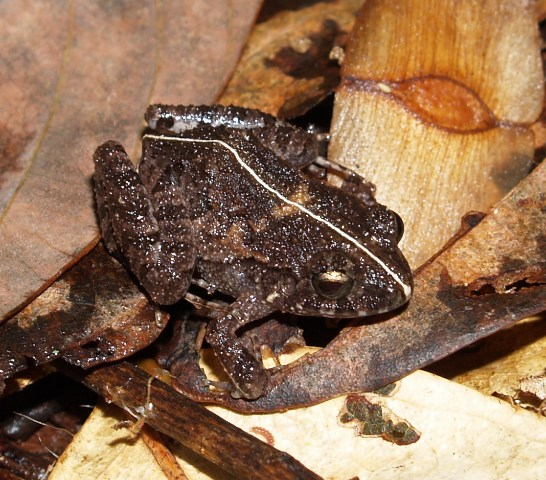 Craugastor polyptychus